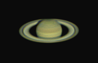 Saturn 1-Agust-2015 La Cañada